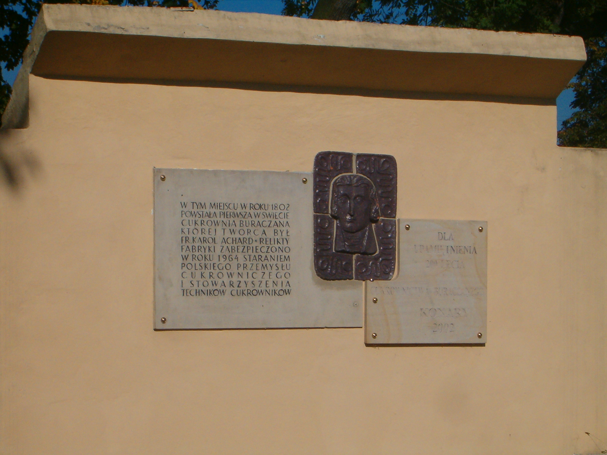 Ruins of sugar factory in Konary, Poland